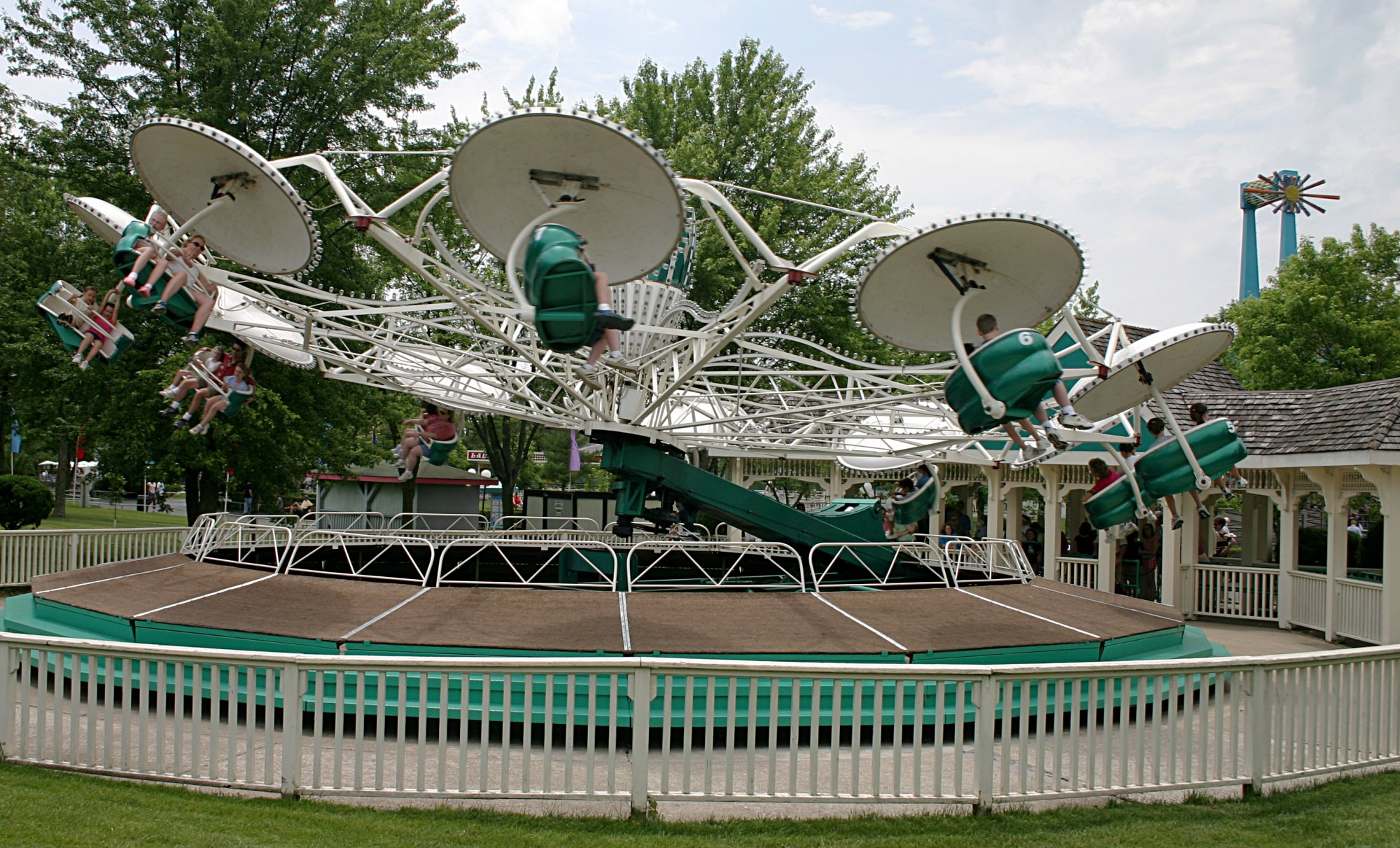 Der Flinger at Adventureland in Altoona, Iowa.